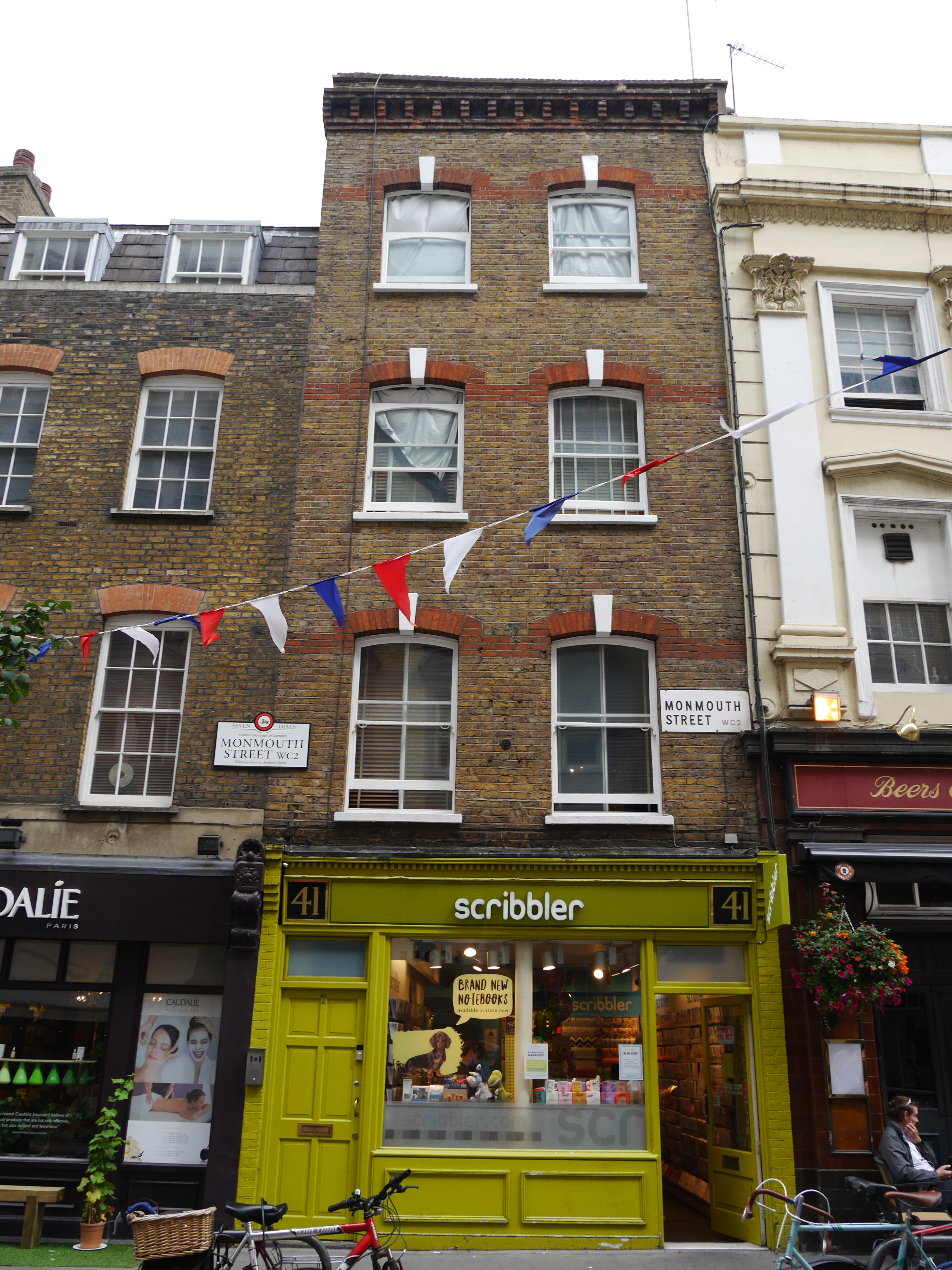 Monmouth Street, Covent Garden